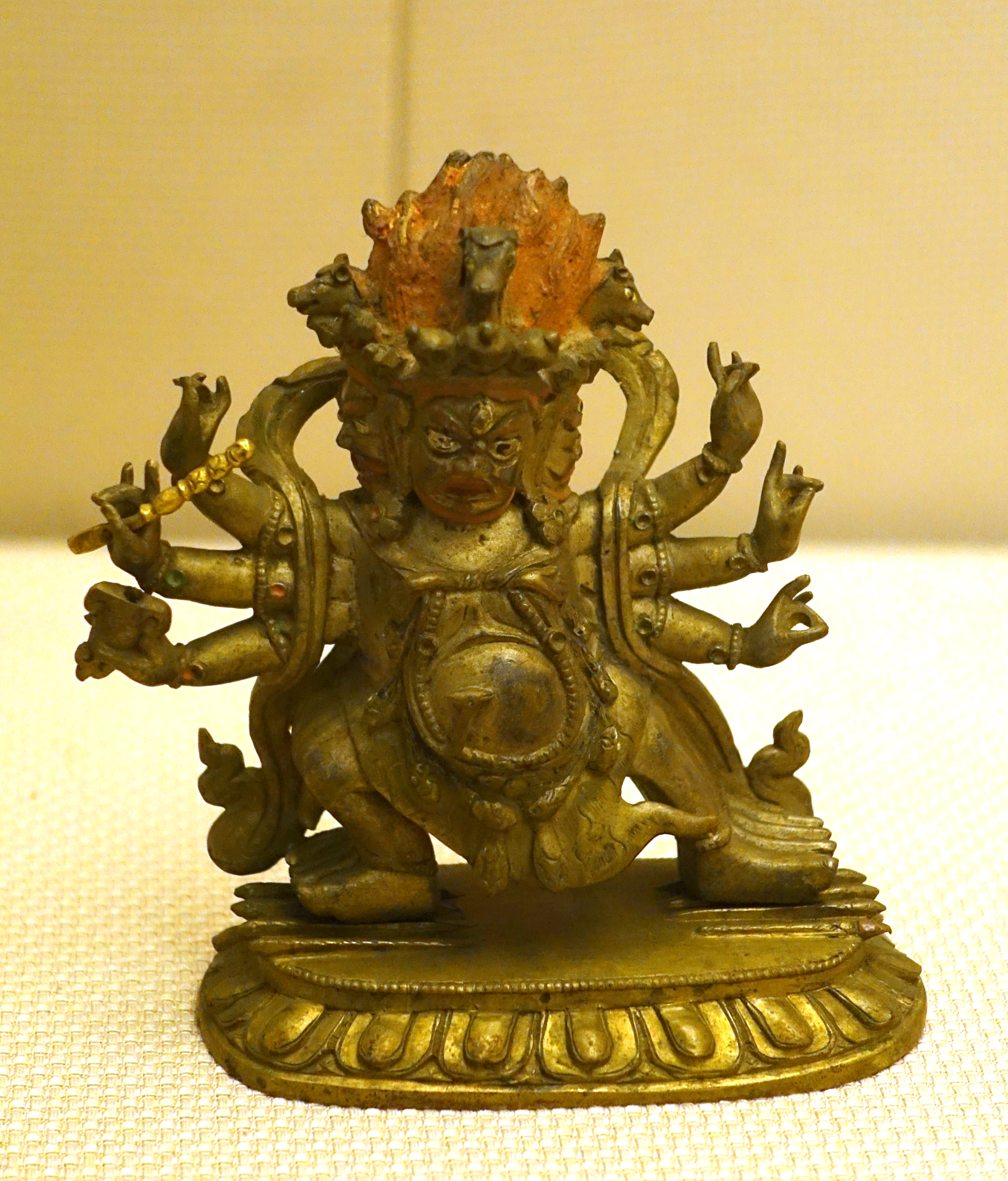 Exhibit in the Sichuan Provincial Museum (四川省博物院), also known as the Sichuan Museum, 251 Huanhua S Road, Chengdu, Sichuan, China. This work is old enough so that it is in the public domain.